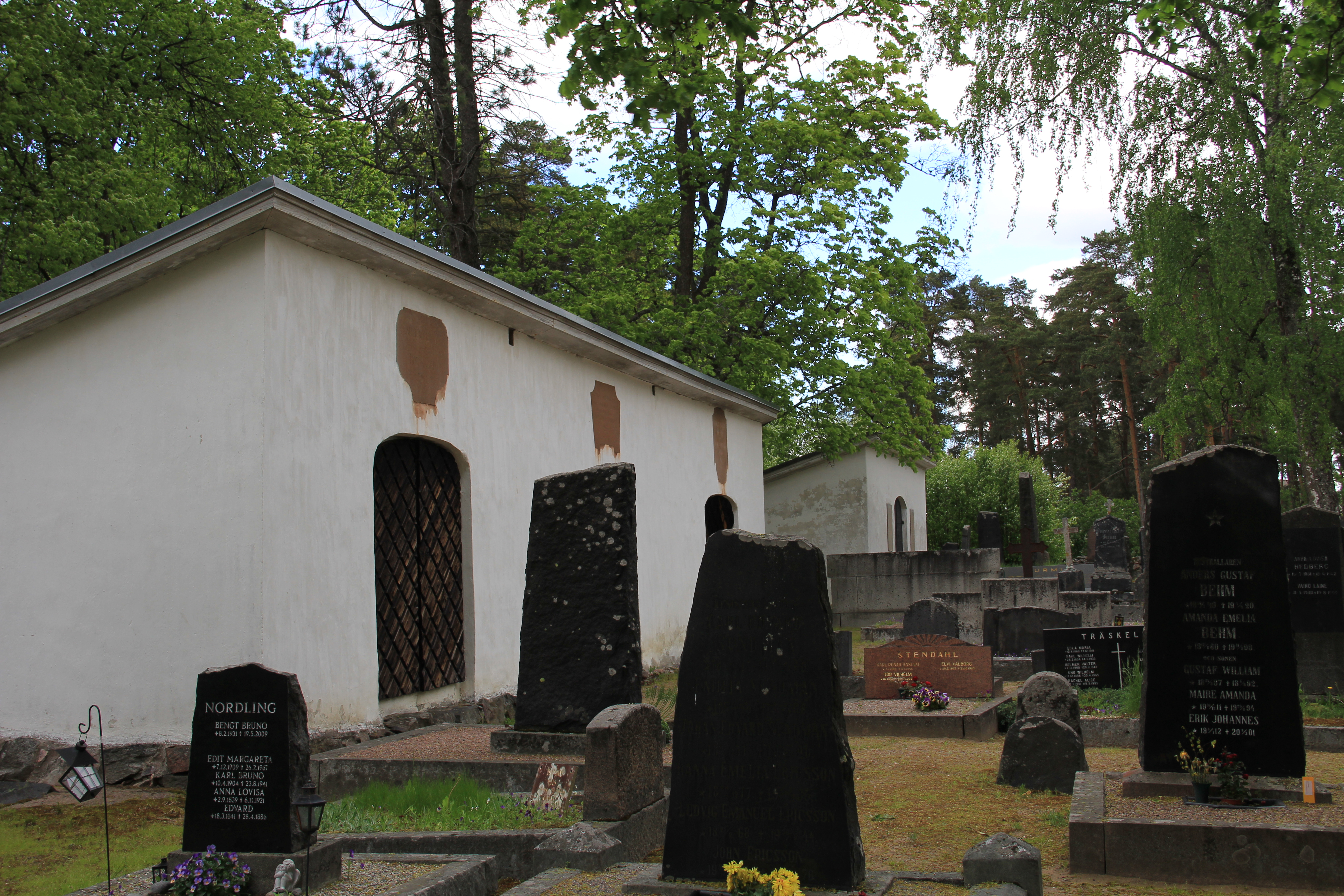 Näsinmäki cemetery, Porvoo, Finland. - Nobility mausoleum chapels, 2 of total 4 chapels, built in 1793-1834.